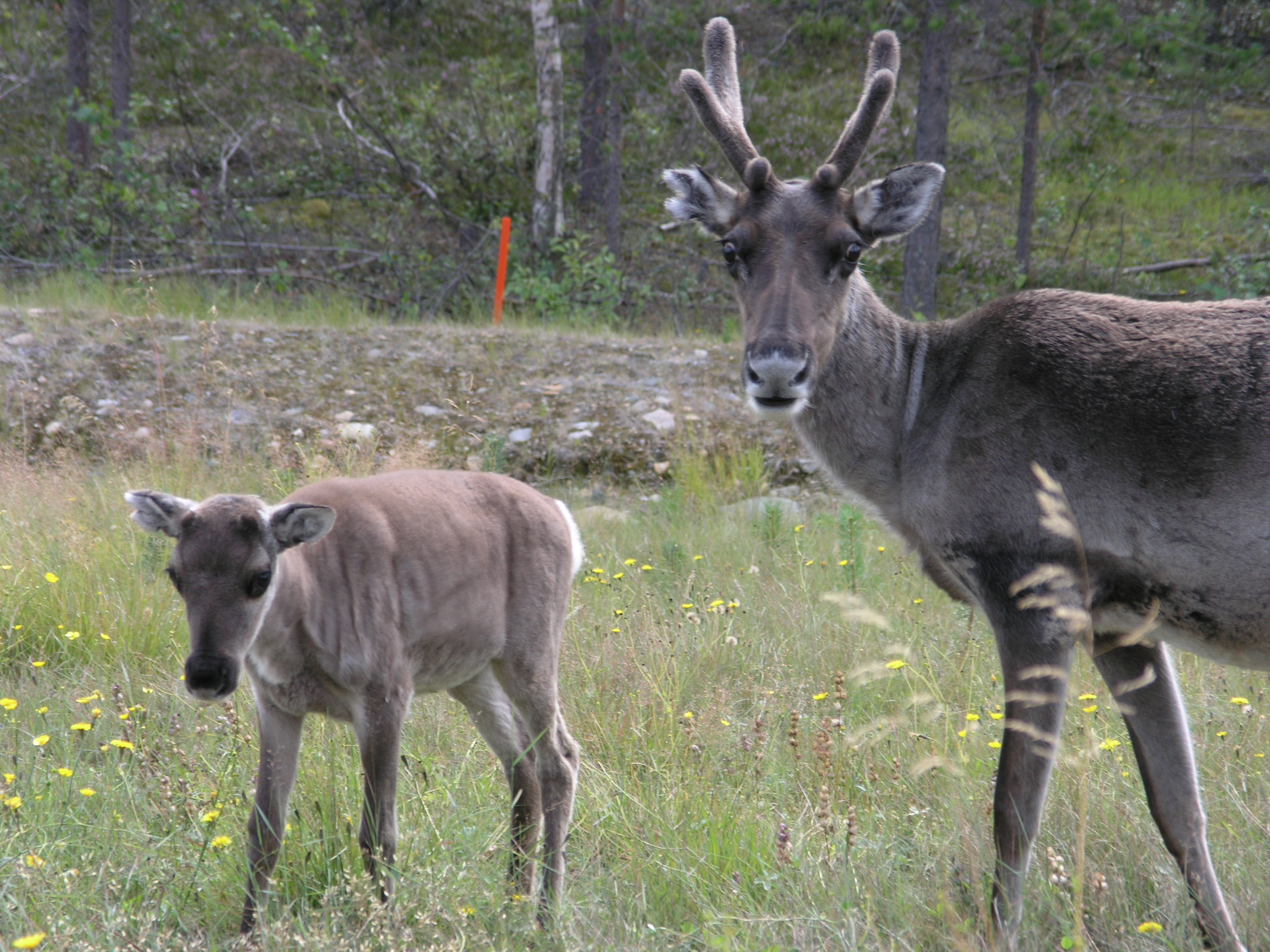 Reindeers, Rangifer tarandus. Suomi near Inari.